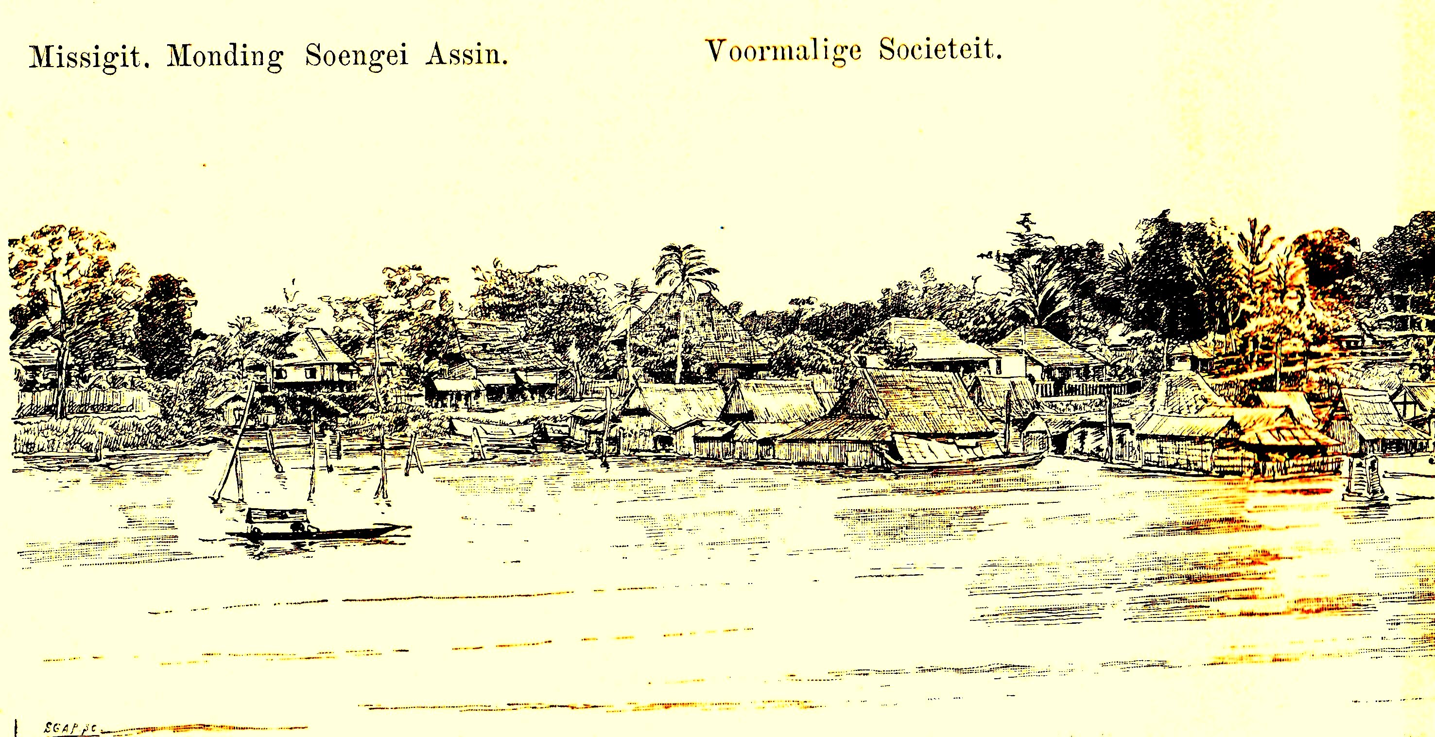 Djambi van de rivier af gezien